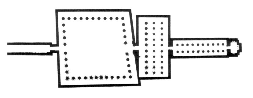 plan from tomb of kheruef